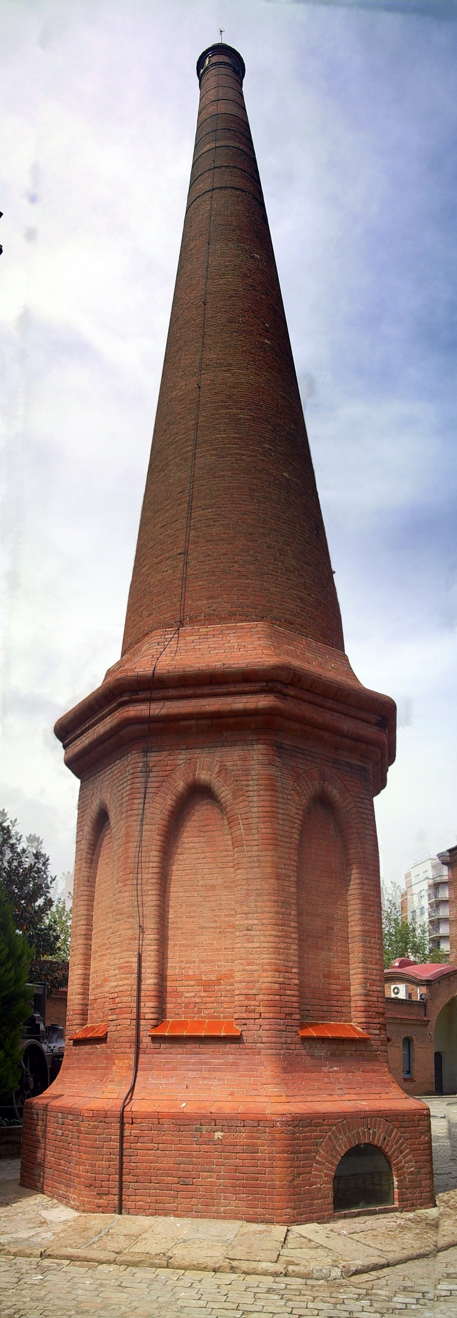 Panoramic view of the chimney from the textile factory, at the mNATECT, Terrassa, (Catalunya).